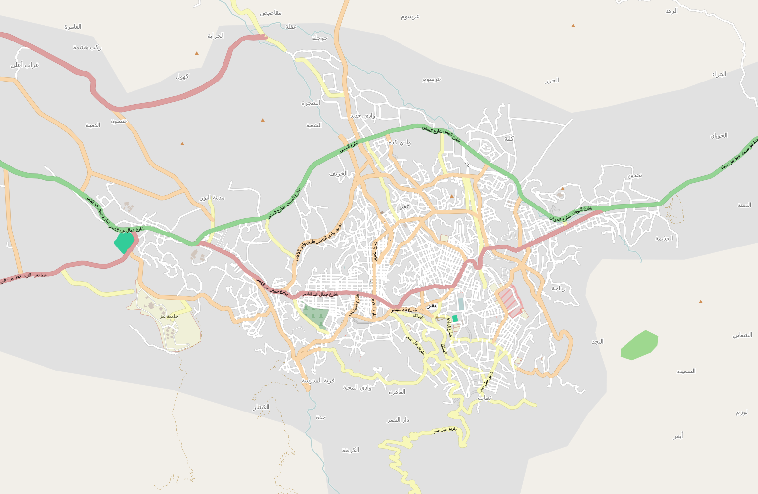 Map of Taiz — in the , Yemen. Geographic limits of the map: ̈top=13.6213 ̈bottom=13.5479 ̈left=43.9556 ̈right=44.0713